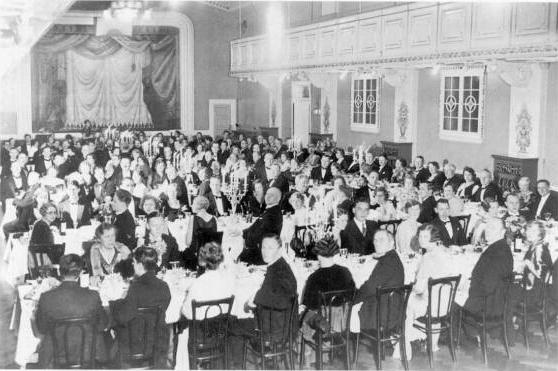 New Year's Eve at Gimle in Frederiksberg, Copenhagen, Denmark